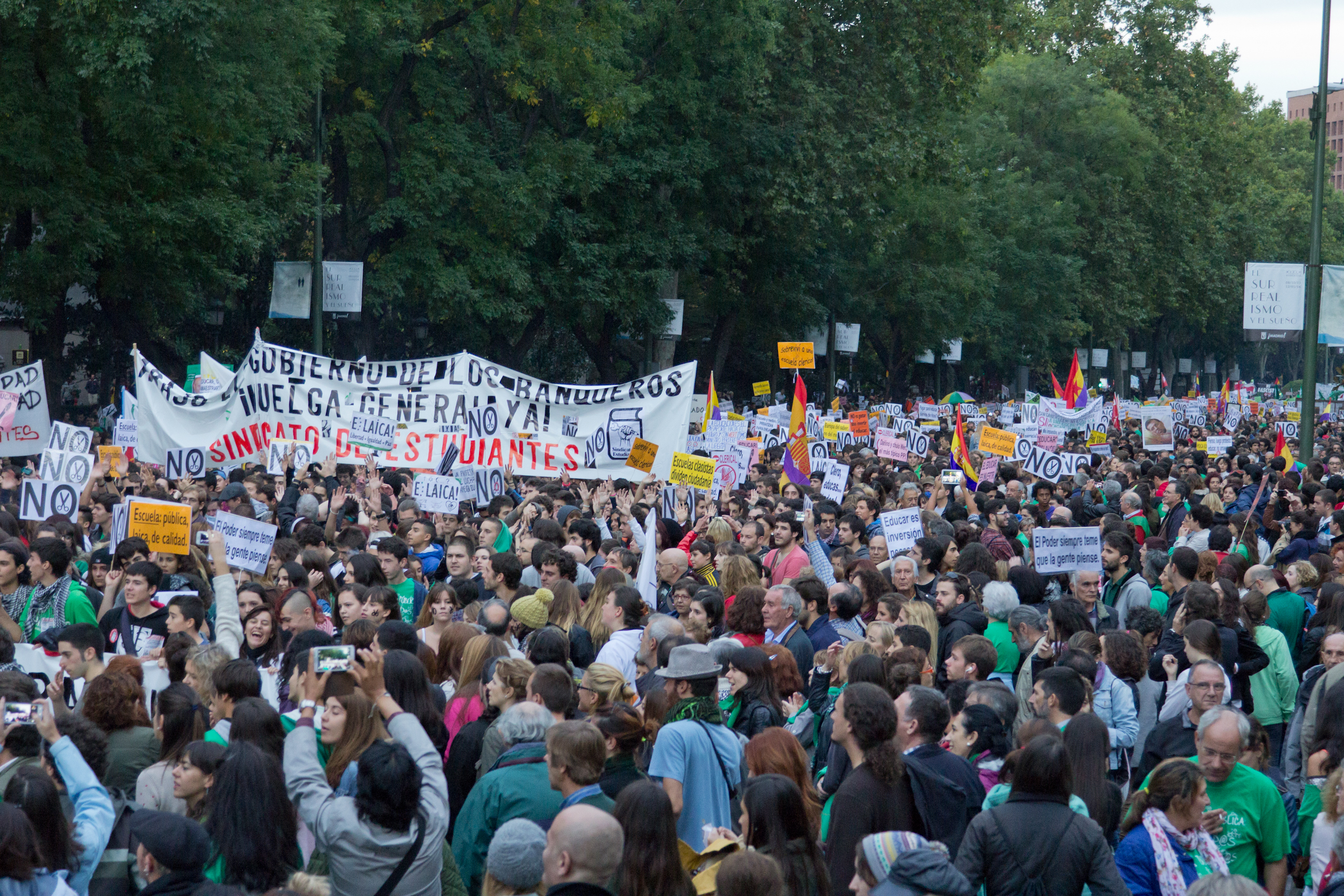 Demonstration in Madrid against cuts in education and education law reform.